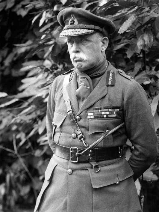 F.M. Sir John French, Commander in Chief, in France [Blendecques].